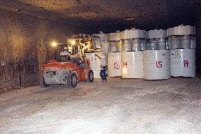 Waste Handling Technicians Emplacing Transuranic (TRU) Waste in Room 6, of Panel 3 at the Site. Waste Isolation Pilot Plant (WIPP).